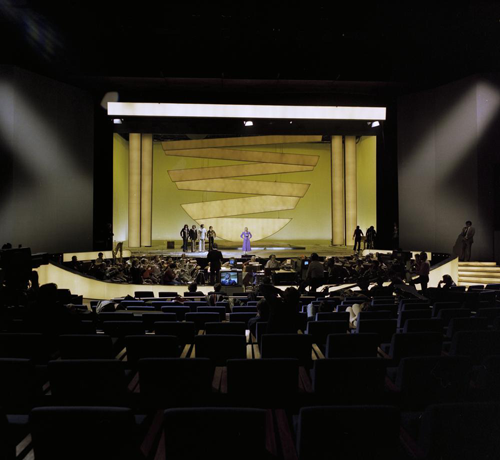 Stage of the Eurovision Song Contest 1976, designed by Roland de Groot. It consists of a parabolic figure, cut in horizontal strips and a circle. All strips and the circle can move seperately. Each country at the Eurovision Song Contest 1976 had its own background, consisting of the strips and circle